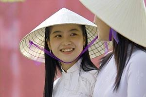 Young Vietnamese girl in aodai dress and non la hat.